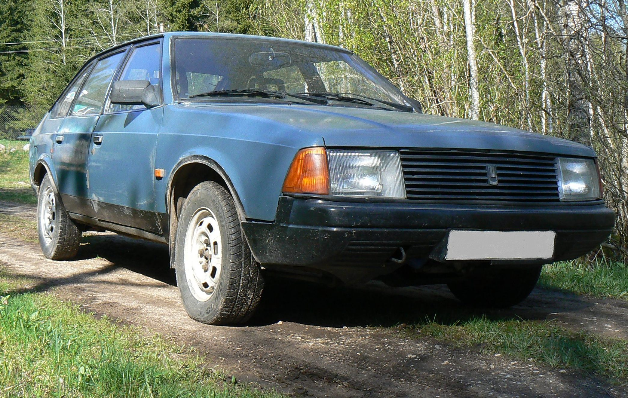 Autoplant of Lenin`s Komsomol model M-21412 "Moskvitch". Front view.